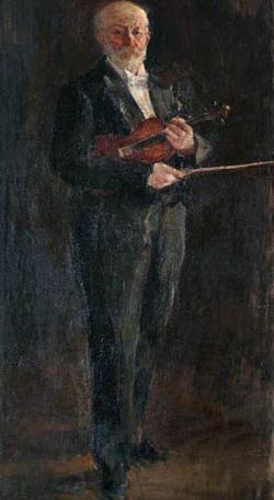 Jan Hřímalý (1844–1915), in a 1911 portrait by Mikhail Fedorovich Shemiakin